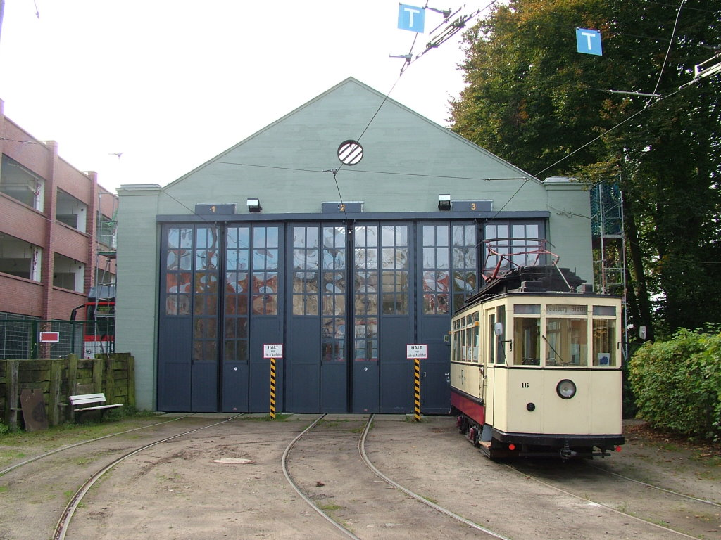 historic tramcar 16 (built 1925, until 1940 Mettmann) standing in front of the depot of the Strausberger Eisenbahn in Strausberg near Berlin, Germany on Oct. 1st, 2005